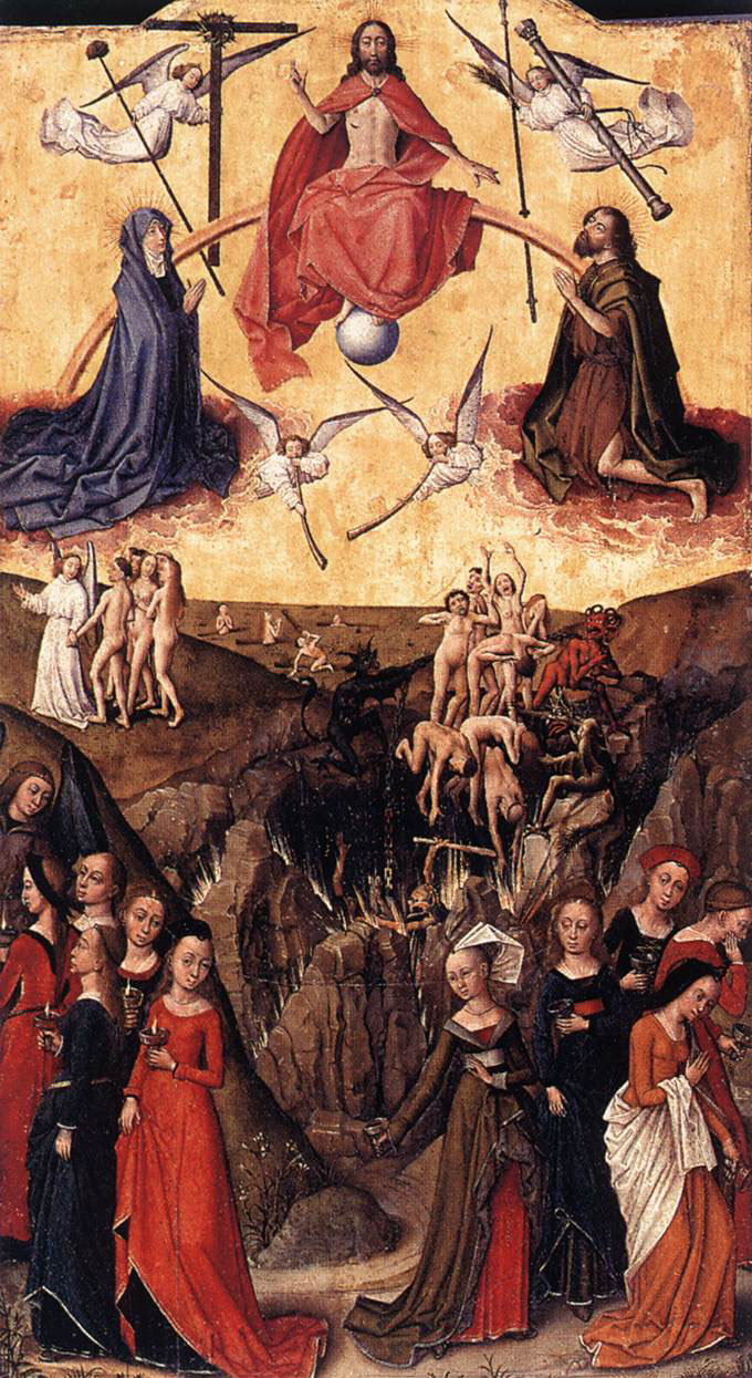 Last Judgment and the Wise and Foolish Virgins